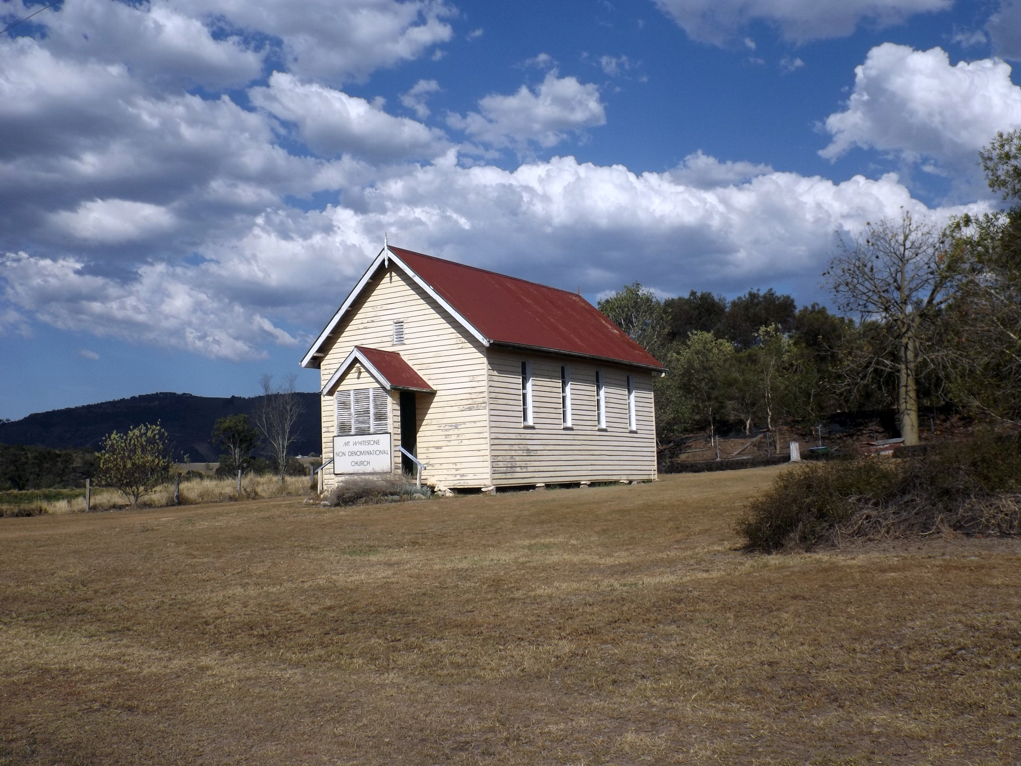 Photo of Mount Whitestone Non-denominational Church at Mount Whiteston, Queensland, Australia.